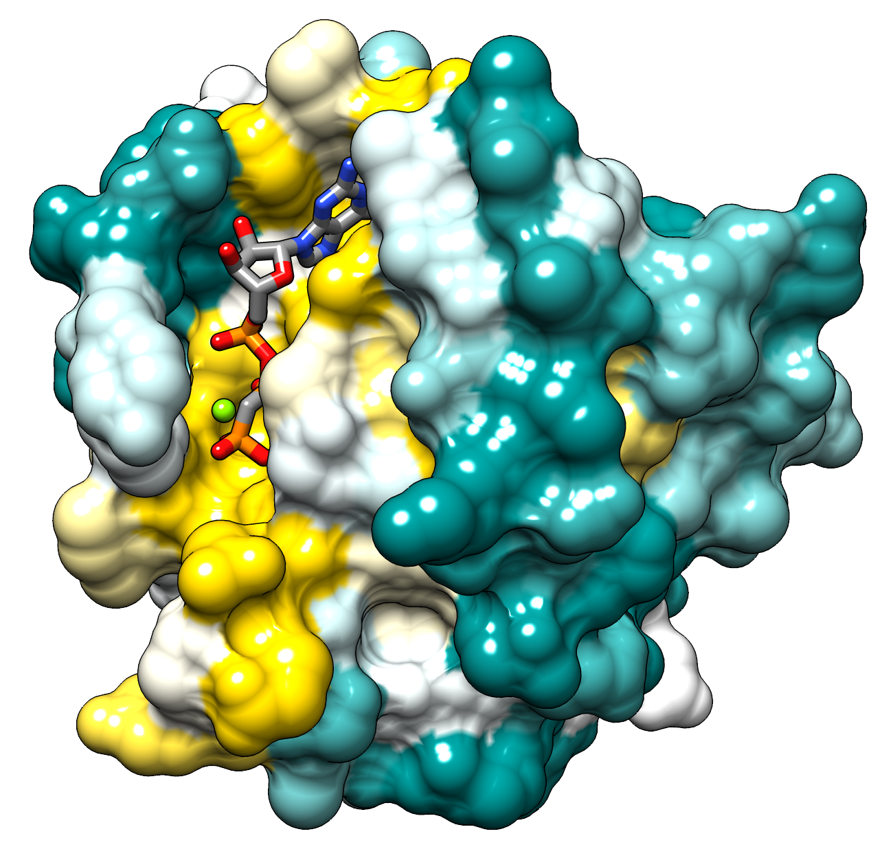 Structure of H-ras, PDB ID 121p, generated with UCSF Chimera. The surface is colored to show protein family sequence conservation, from least conserved in dark cyan, to white, to most conserved in gold. Conservation calculated from the Ras family seed alignment from Pfam, using the AL2CO entropy method described in Pei J, Grishin NV. Bioinformatics. 2001 Aug;17(8):700-12. UCSF Chimera development is funded by the NIH (grant P41-RR01081).